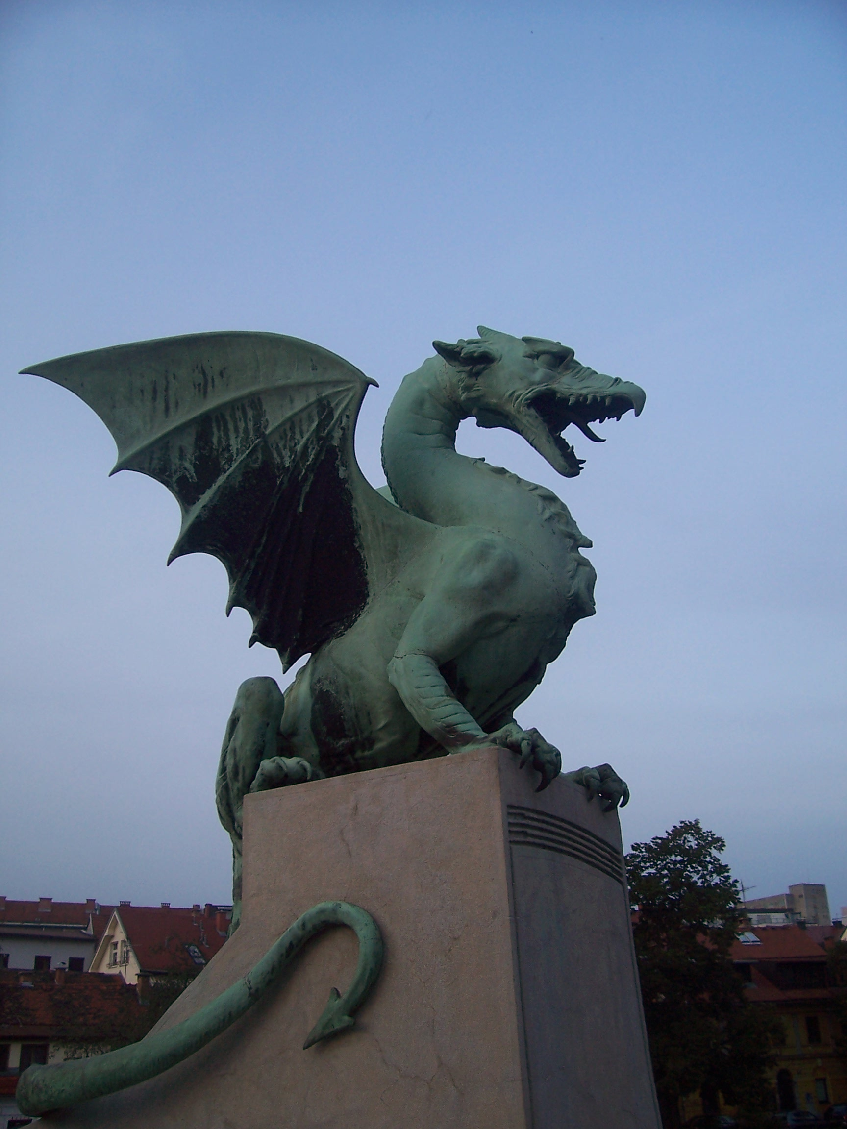 Dragon, the symbol of Ljubljana, on Dragon Bridge